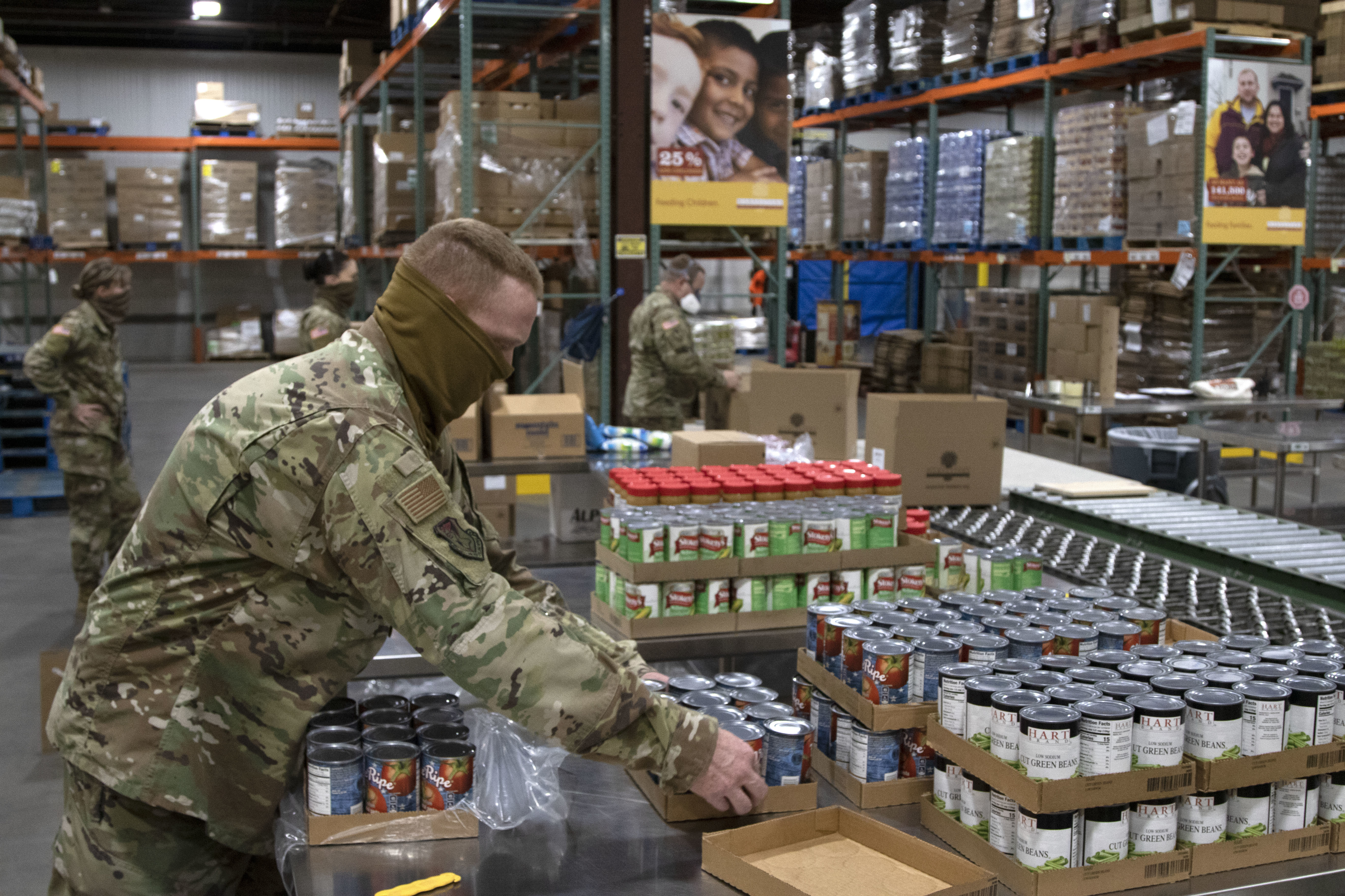 Soldiers and Airmen of the Kansas National Guard, assist in packing food items at Harvesters in Topeka, Kansas April 22, 2020. The boxes of food will be shipped to families across the state. Harvesters is a regional food bank that serves a 26-county area of northwestern Missouri and northeastern Kansas and provides food and related household products to more than 760 nonprofit agencies. Kansas National Guard members have been working eight-hour shifts at Harvesters to meet the growing food demand caused by the COVID-19 pandemic. (Photo by Sgt. Ian Safford)